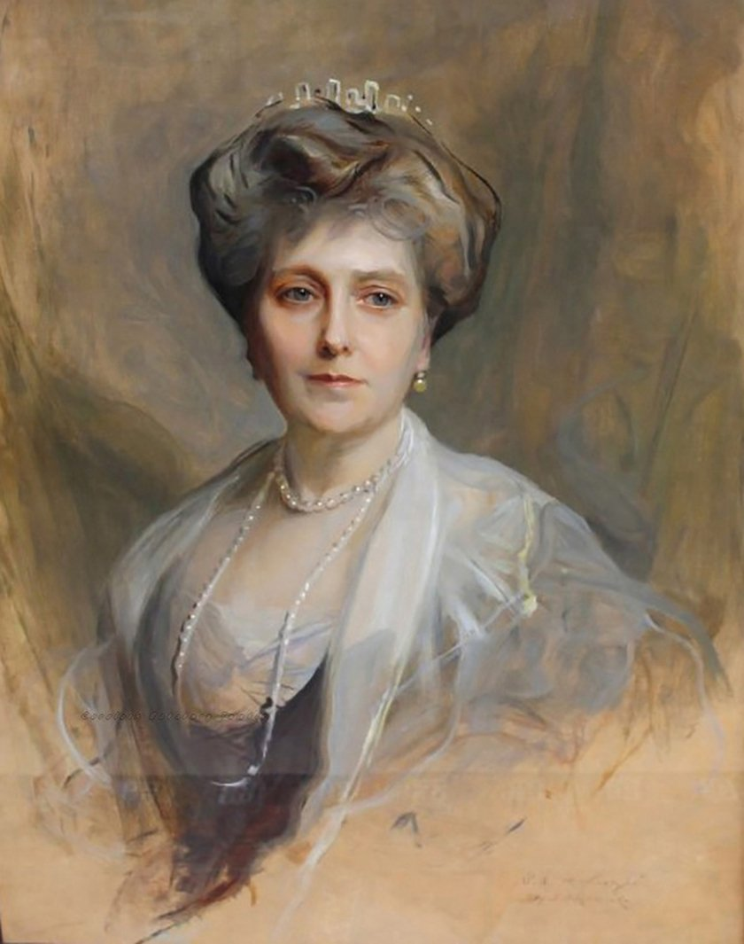 Princess Henry of Battenberg, née Princess Beatrice of Great Britain